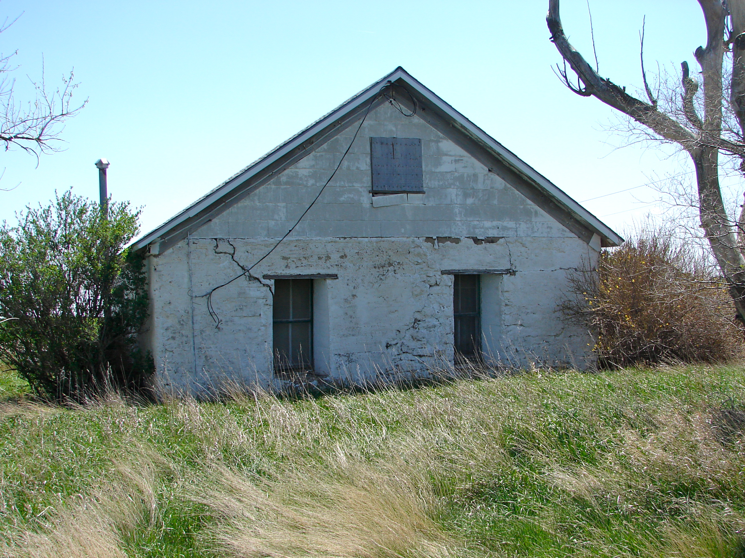 Wallace W. Waterman Sod House on rthe NRHP since February 17, 1995. On Day Rd., 9 miles north of Big Springs, Deuel County, Nebraska, roughly 10 miles west of the middle of nowhere. The house is not immediately identifiable as a sod house, since it is covered by stucco or cement. The thickness of the walls and a lack of definition in the corners, windows, etc. gives it away though. The stucco is cracked in a way that reveals blocks of something underneath. If this speculation is correct, then the sod blocks must have been at least 2 feet thick. Farm site is not lived in now, but across the street are modern storage facilities.